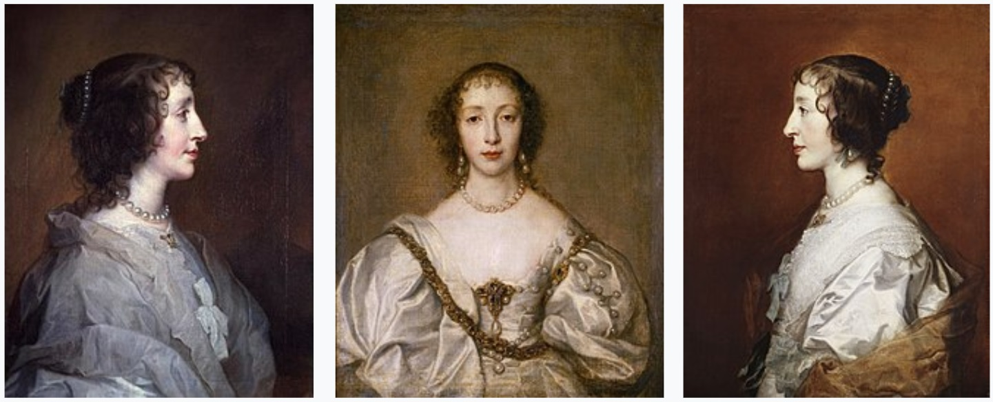 Reconstruction of Queen Henrietta Maria's triple portrait made to enable a bust portrait by Bellini